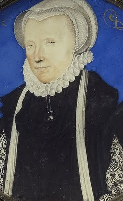 Margaret Douglas, Countess of Lennox two years before her death. Daughter of Margaret Tudor and niece of King Henry VIII.